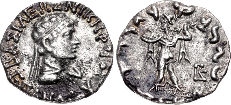 Epander round bilingual